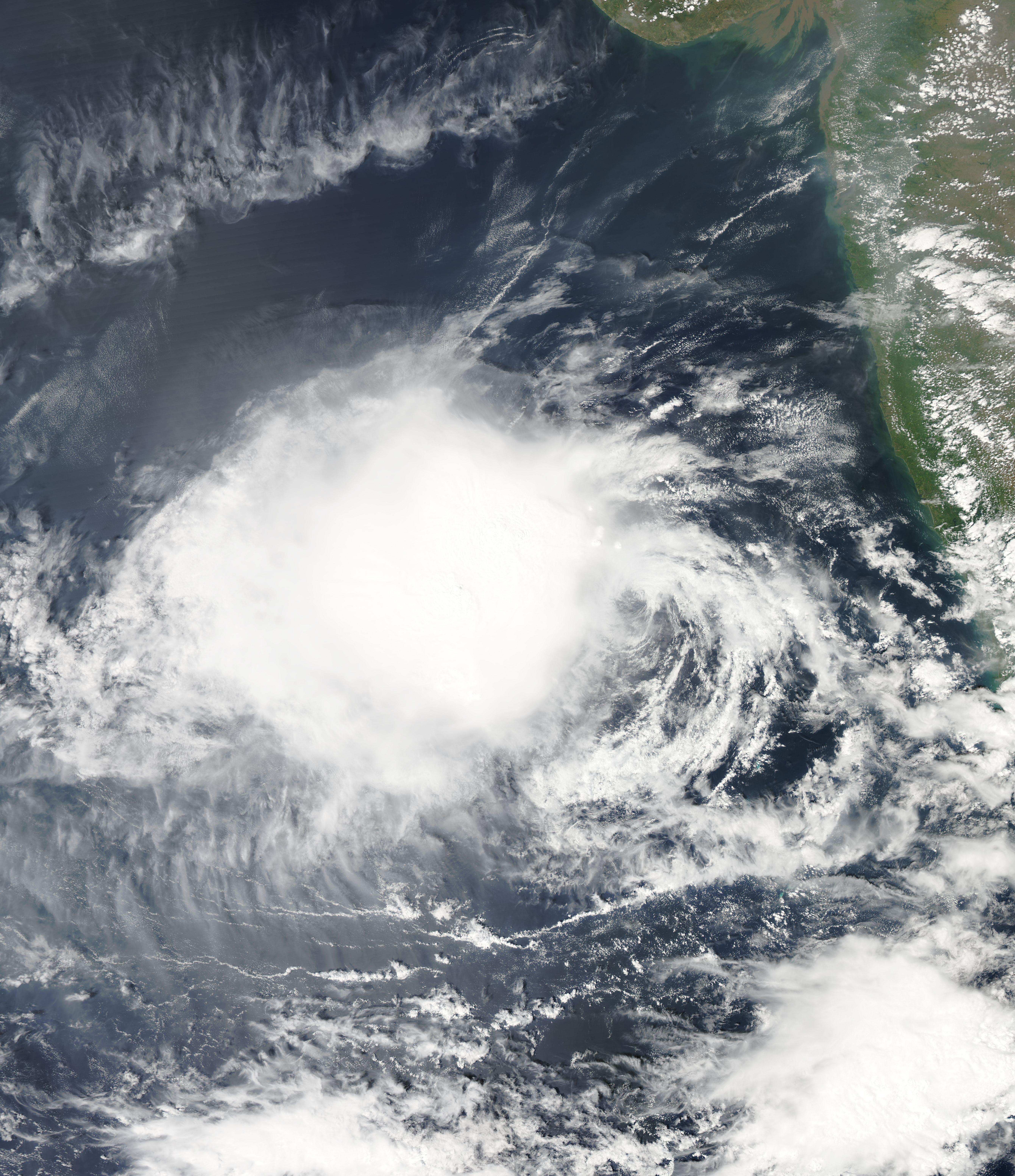 Tropical Depression ARB 03 on October 9, 2015